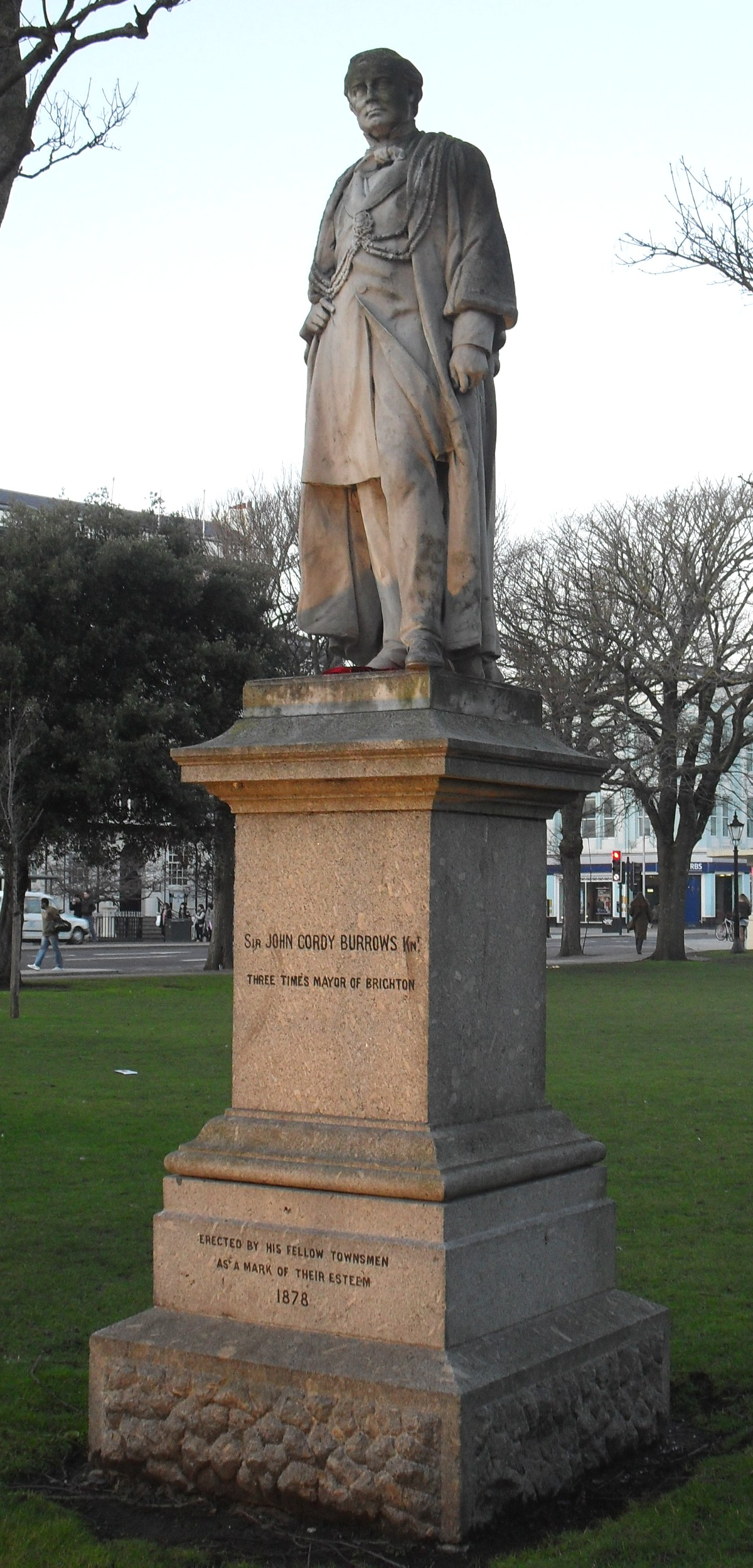 Statue of John Cordy Burrows, Old Steine, Brighton by Edward Bowring Stephens (1815-1882). Burrows was Mayor of Brighton on three occasions in the mid-19th century. Listed at Grade II by English Heritage (IoE Code 481003)